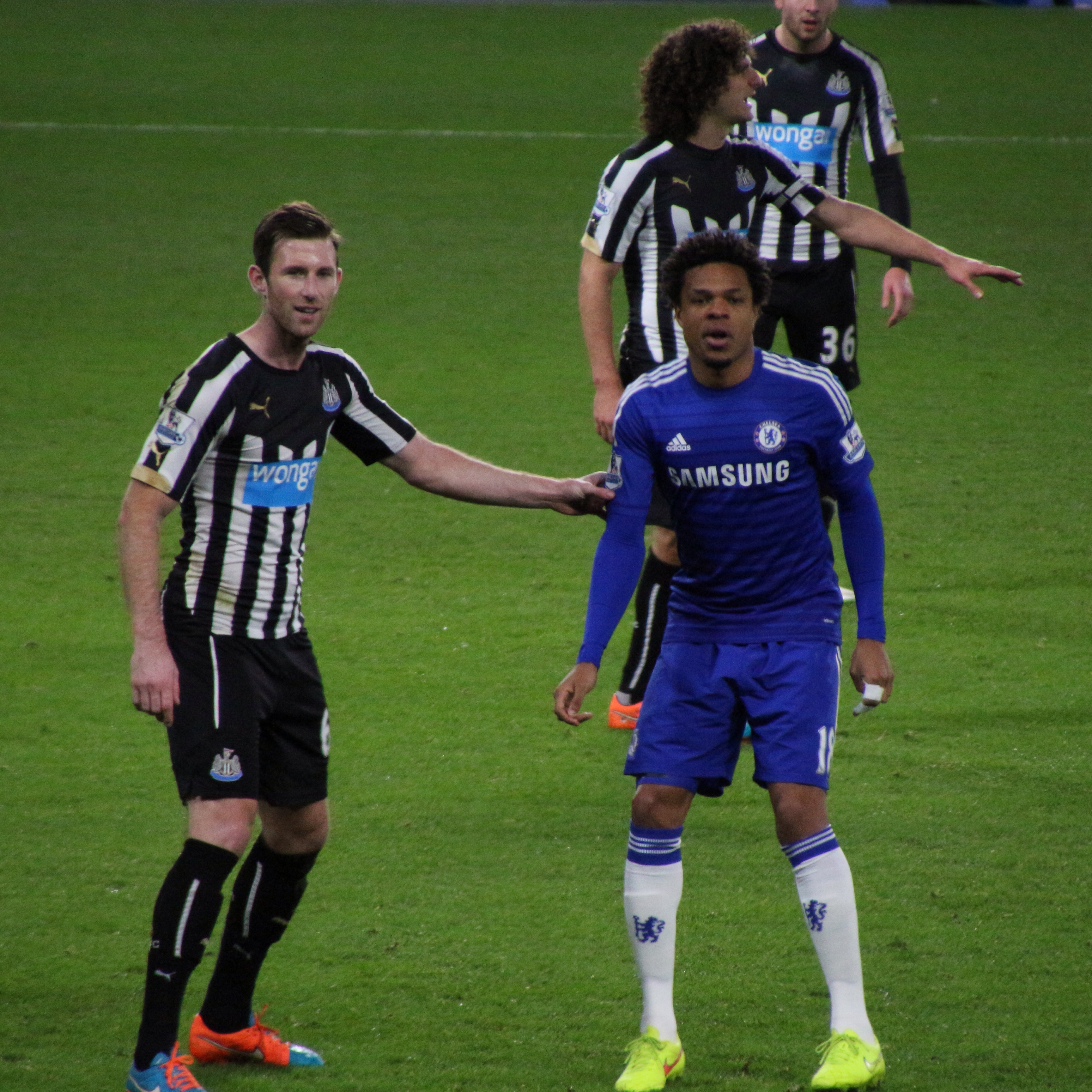 Chelsea 2 Newcastle 0